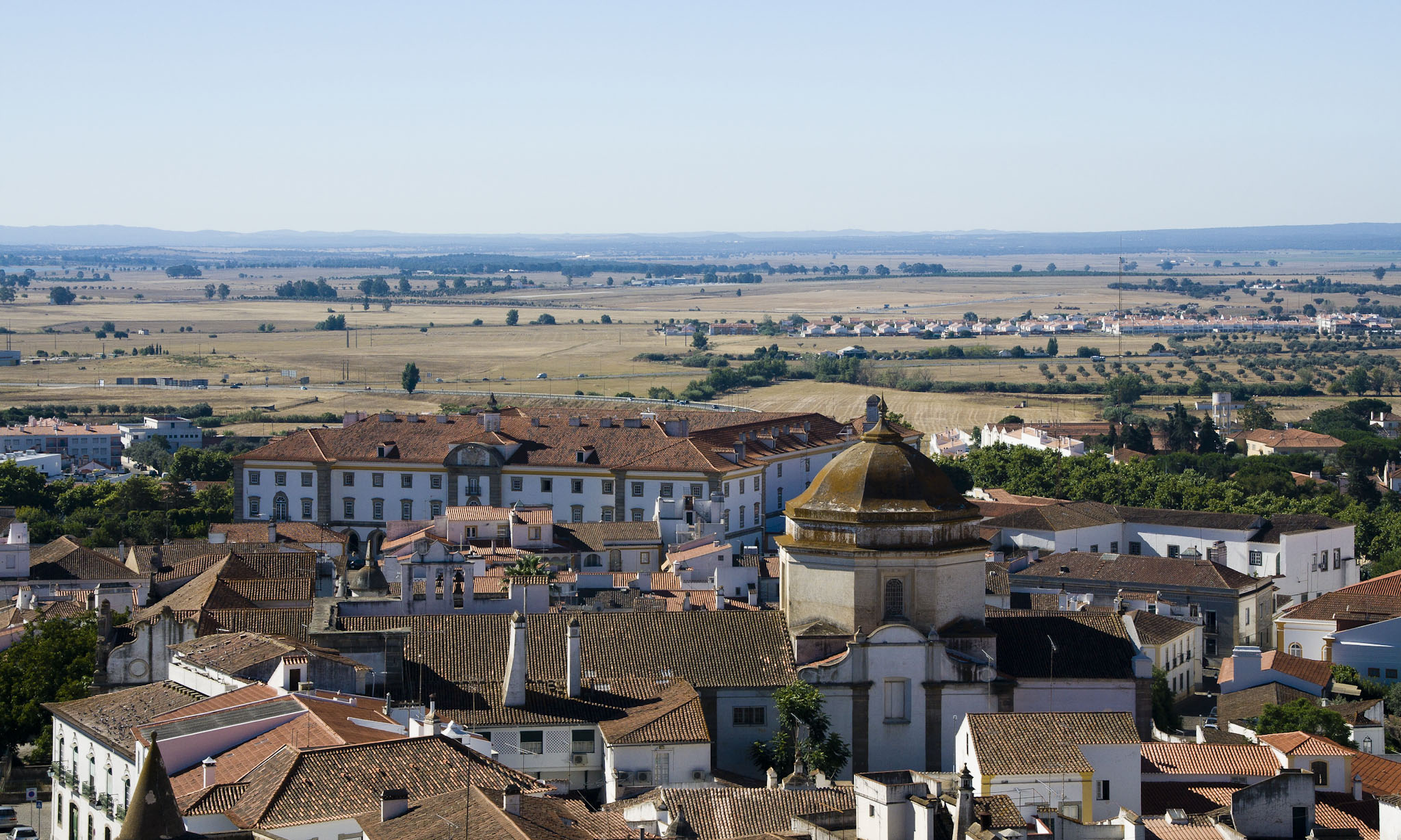 Evora panorama